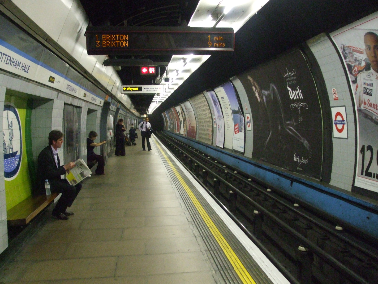 Tottenham Hale station Victoria line southbound platform looking north